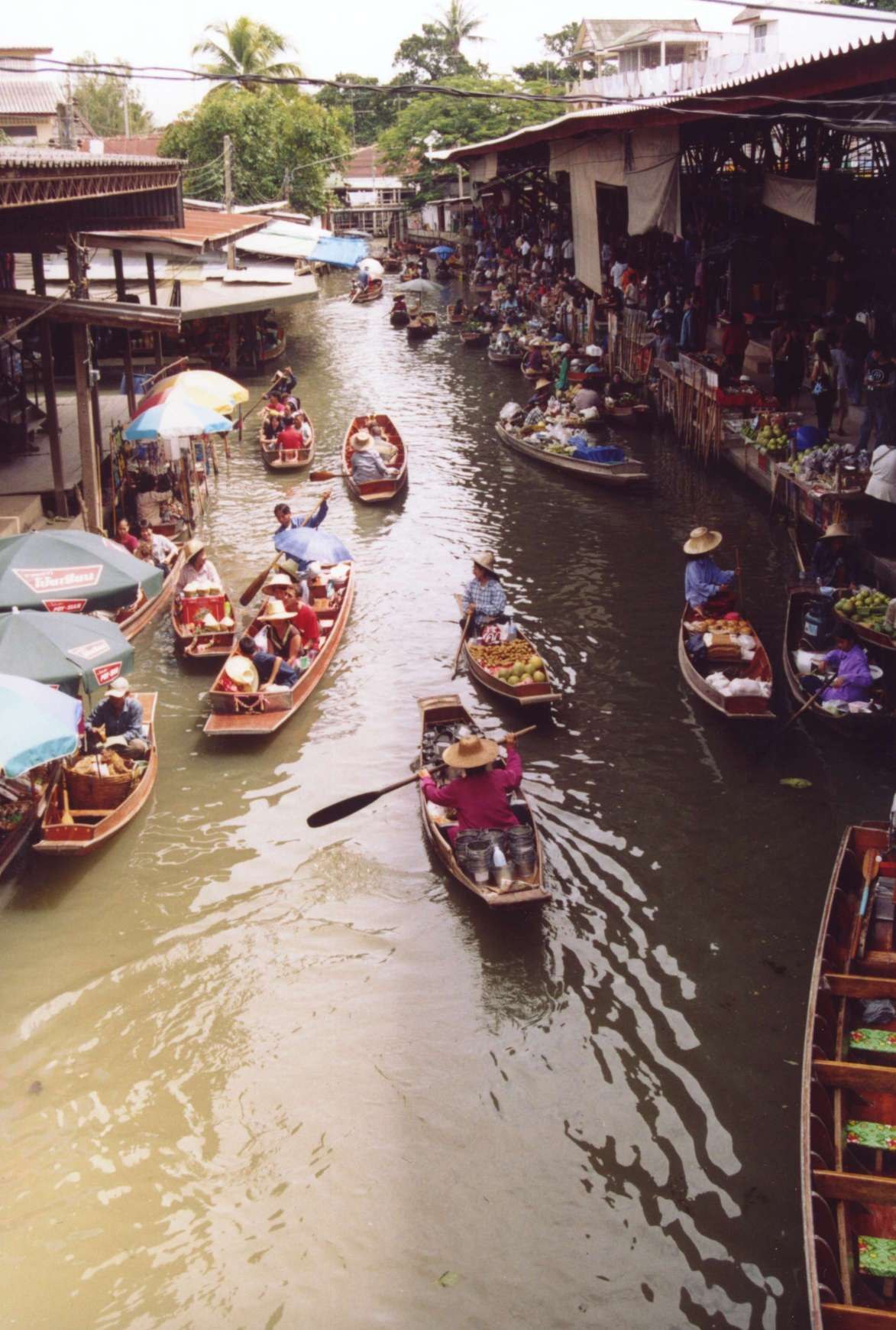 Floating market of Damoen Saduk, Ratchaburi province, Thailand.